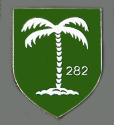 282nd Armored Grenadiers Battailon (former 282nd Tank Battalion)